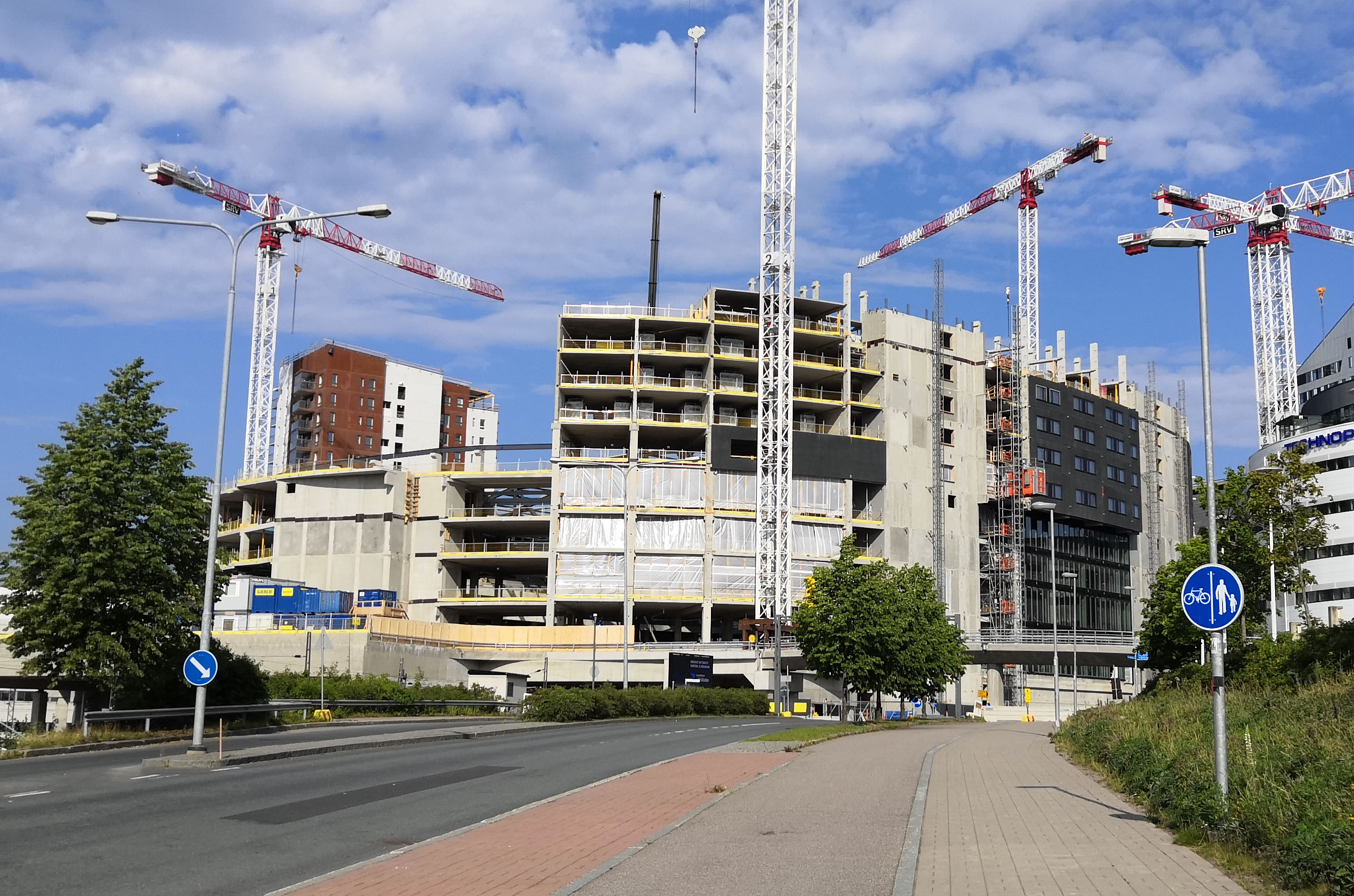 Uros Live under construction in August 2020.